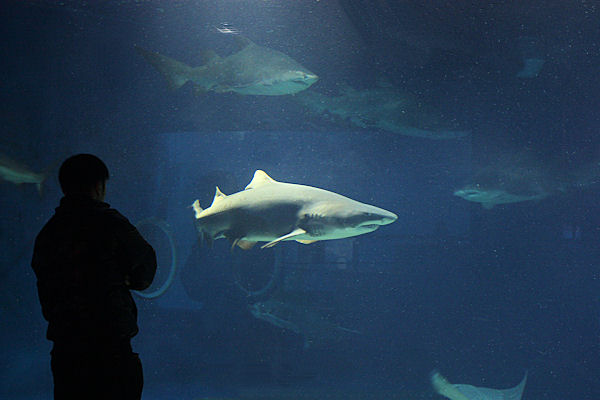 Shark at the Aqua World Ibaraki Prefectural Oarai Aquarium